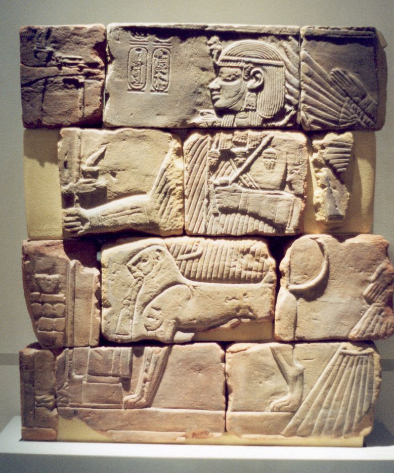 Relief from the chapel of king Amanitenmomide from Meroe, Berlin, Egyptian Museum, Inv. no. 2260.